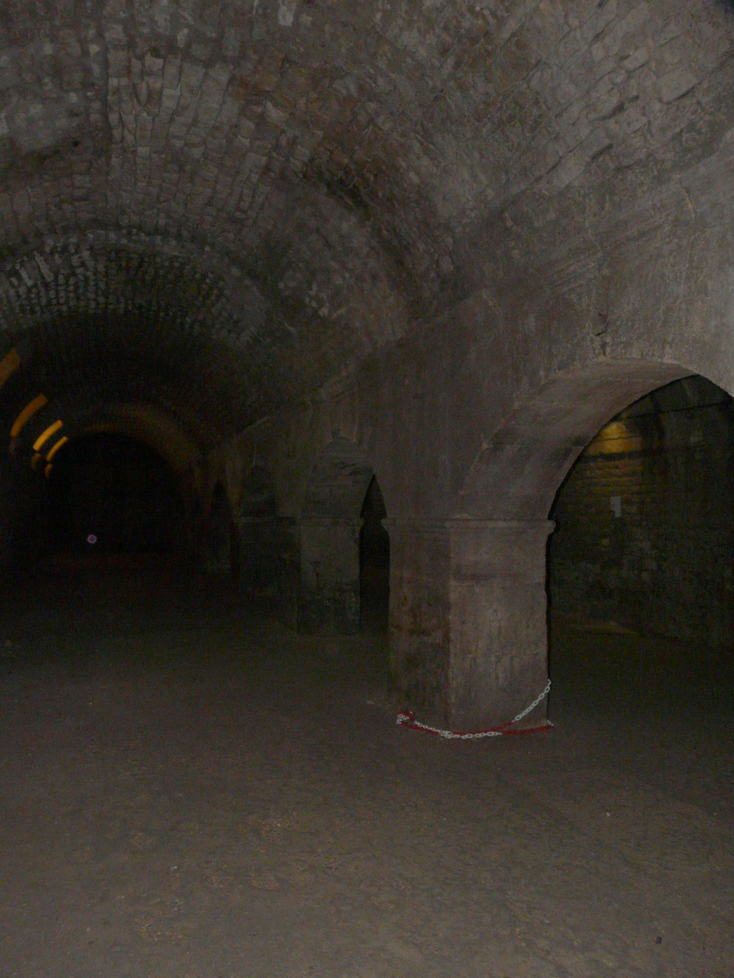 The Cryptoporticus of Arles, France - North Gallery.